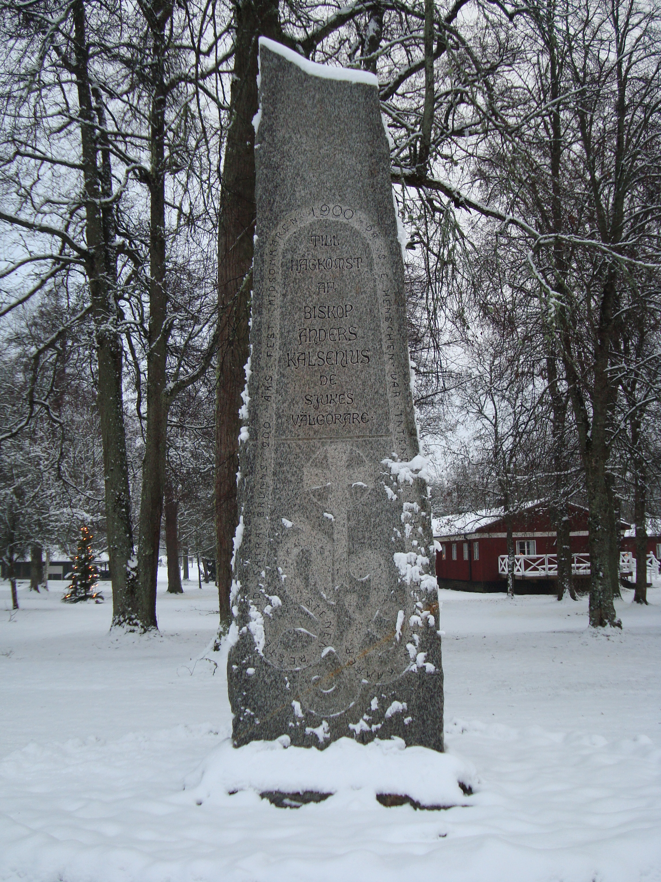 Sätra brunn, Sala municipality, Sweden